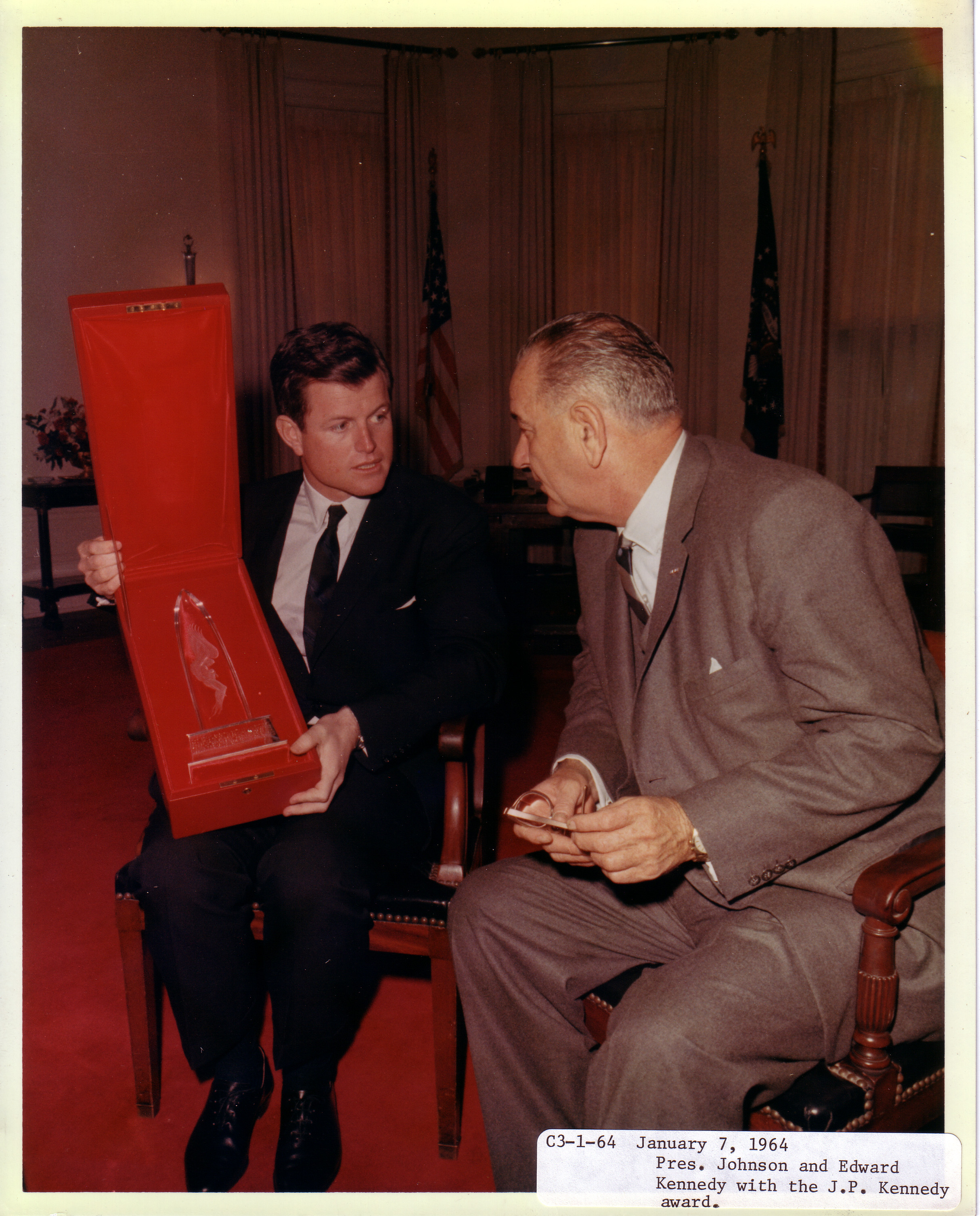 Senator Ted Kennedy presents Jospeh P. Kennedy Award to President Lyndon B. Johnson